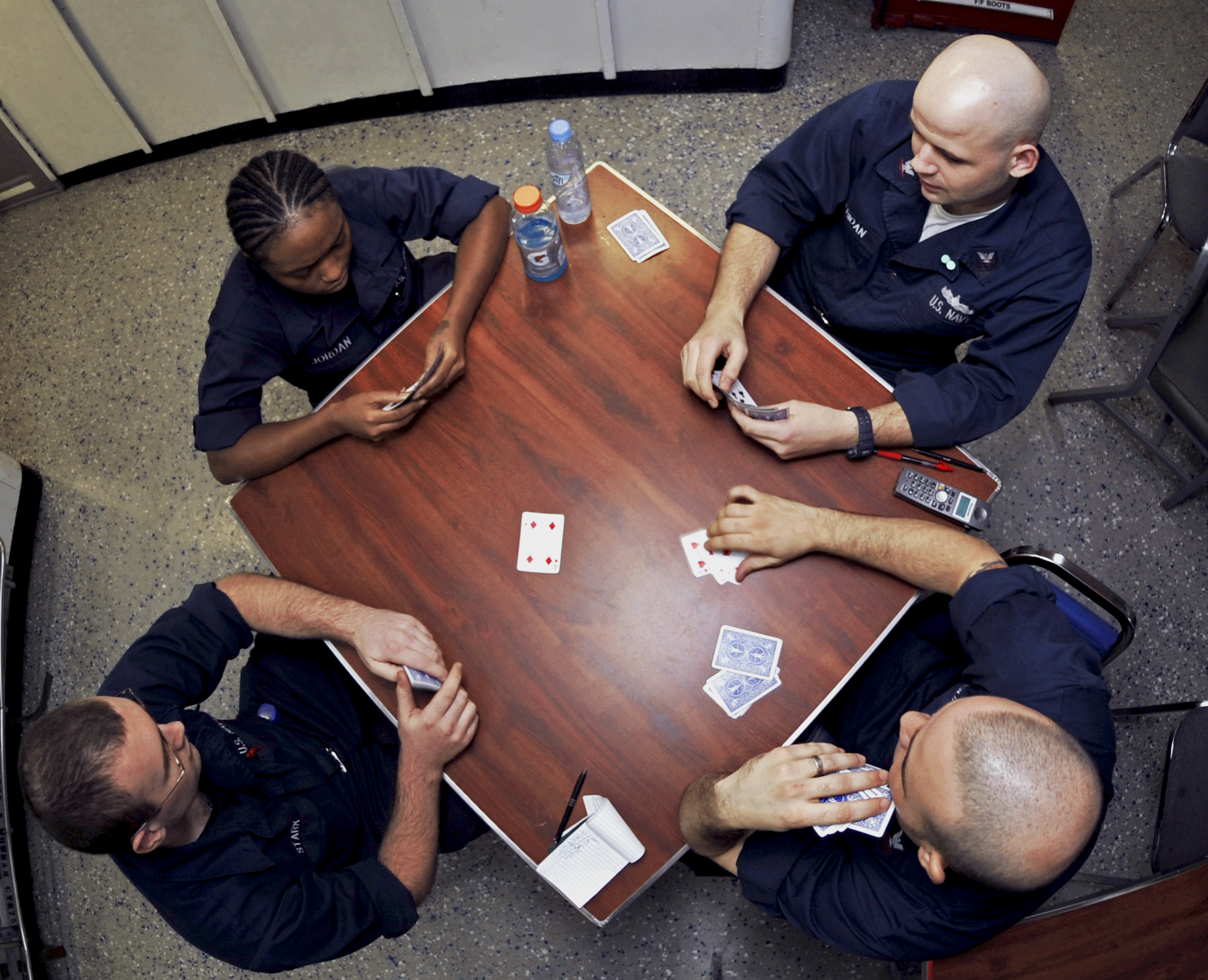 ARABIAN SEA (Aug. 23, 2010) Sailors from the Engineering department aboard the aircraft carrier USS Harry S. Truman (CVN 75) play a game of spades during their lunch break. The Harry S. Truman Carrier Strike Group is deployed supporting maritime security operations and theater security cooperation efforts in the U.S. 5th Fleet area of responsibility. (U.S. Navy Photo by Mass Communication Specialist 2nd Class Kilho Park/Released)